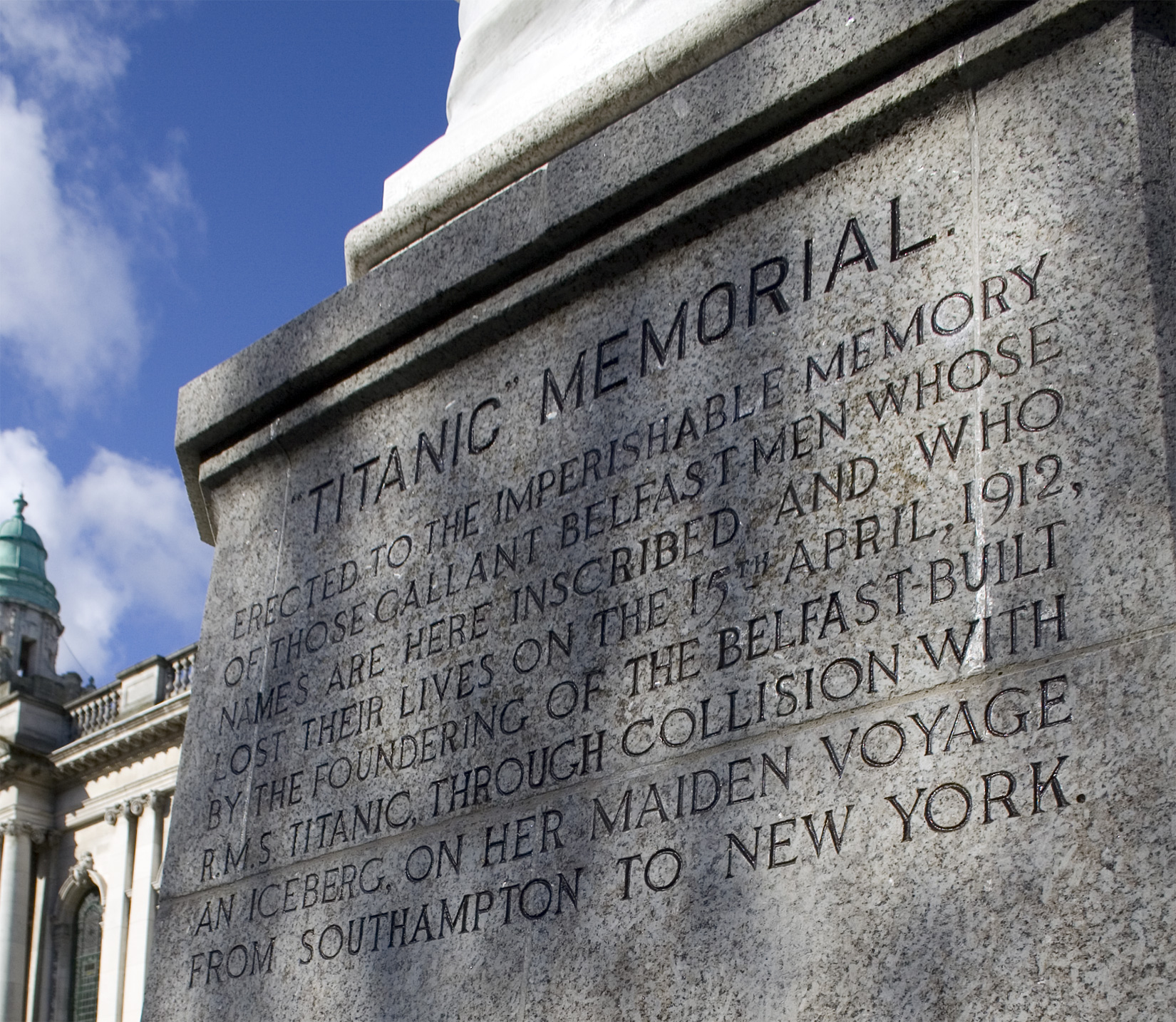 Inscription on the front of the Titanic Memorial Garden, Belfast